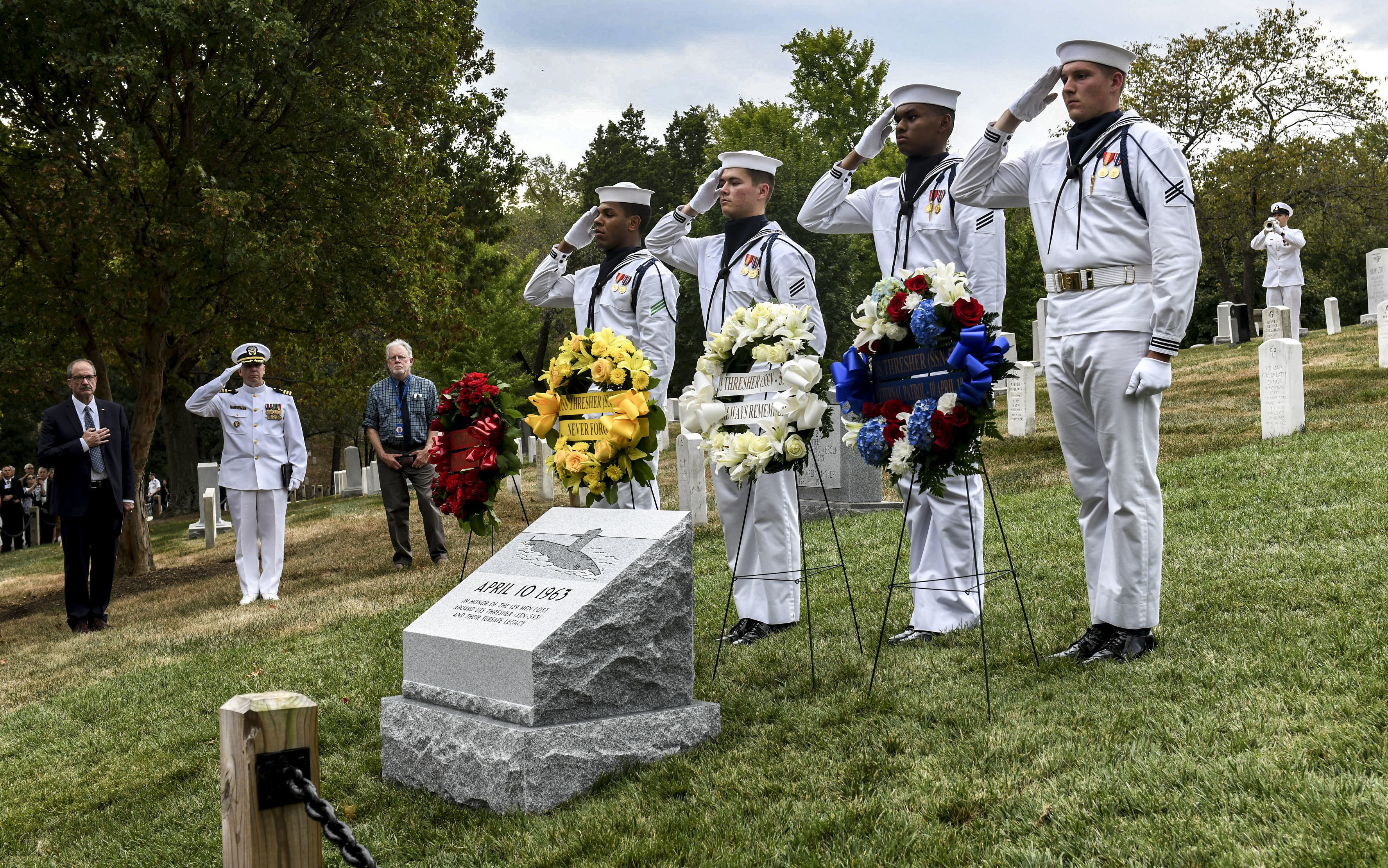 ARLINGTON, Virginia (September 26, 2019) Sailors, currently assigned to the Ceremonial Guard, salute as Taps is played during a wreath laying ceremony placed at USS Thresher (SSN 593) Commemorative Monument in Arlington National Cemetery. The monument commemorates the service and sacrifice of the crew. Thresher sank during deep-diving tests off the coast of Massachusetts, April 10, 1963, killing all 129 personnel aboard: 16 officers, 96 enlisted sailors and 17 civilian technicians. It was the deadliest accident in submarine history, leading the Navy to establish the SUBSAFE Submarine Safety Program. (U.S. Navy photo by Mass Communication Specialist 2nd Class (SW/AW) Mutis A. Capizzi/RELEASED).